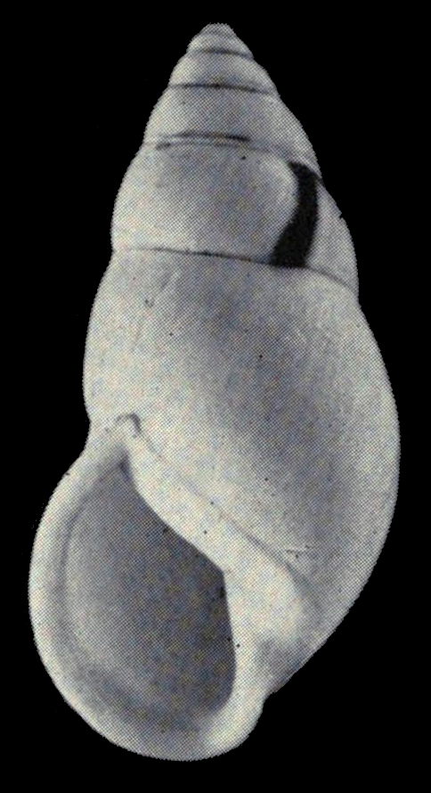 Photo of apertural view of the shell of lectotype of Amphidromus perversus perversus form niveus. Locality: Pare-Pare, Celebes. Taken in: Naturhistorisches Museum, Basel.